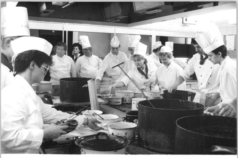 Interhotel "Stadt Berlin" trainees 21 March 1990, Berlin: Exhibition - Together with eight trainees from the hotel "Berlin" in the west of the city, 16 aspiring chefs and waiters of the second academic year of the metropolitan Interhotels presented to professionals for judgement. The Interhotel "Stadt Berlin" spoiled the jury, after numerous appetizers, with "larded beef and turned vegetables in pastry sheet with "potato pears", and at the end a "dialog of fruits in vanilla creme".